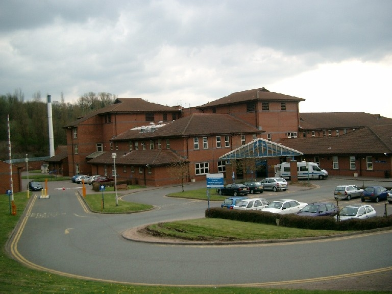 Rowley Regis Hospital from the SWBH NHS Trust archives